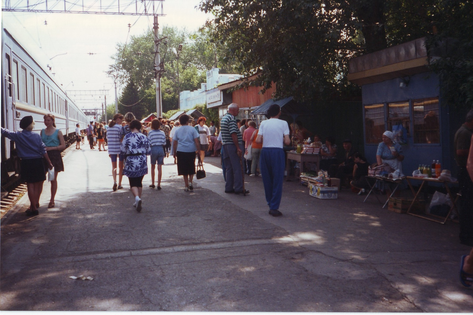 Train station at Ishim (Tyumen Oblast, Russia).